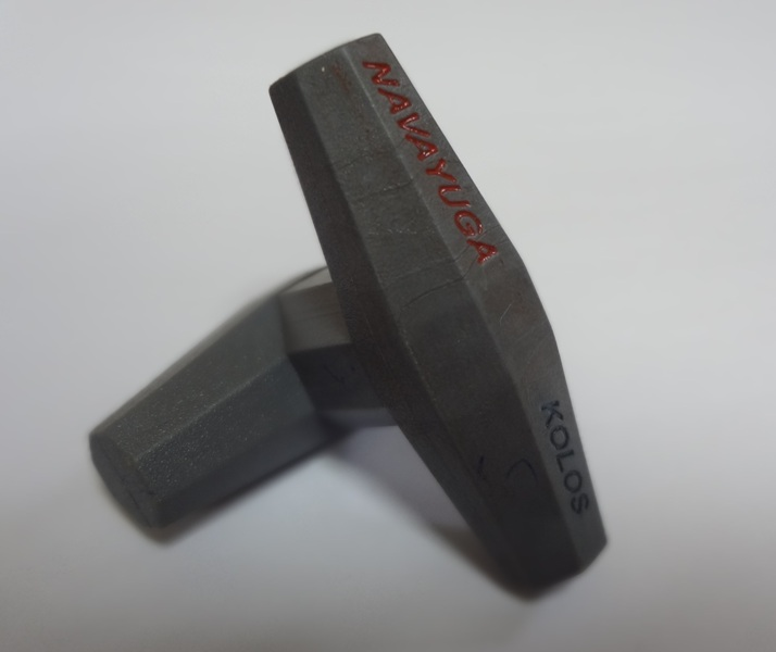 The scaled down model of KOLOS armour block